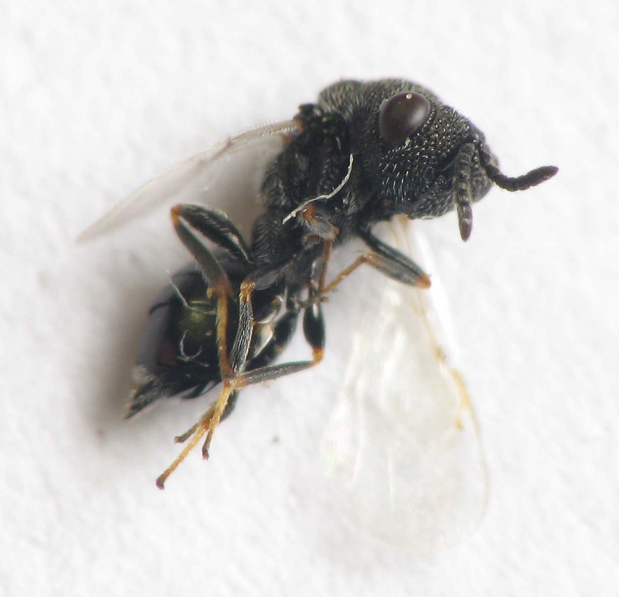 Eurytoma gigantea, parasitoid of goldenrod round galls.Size: 5-6mm. Horsham, Montgomery County, Pennsylvania, USA.